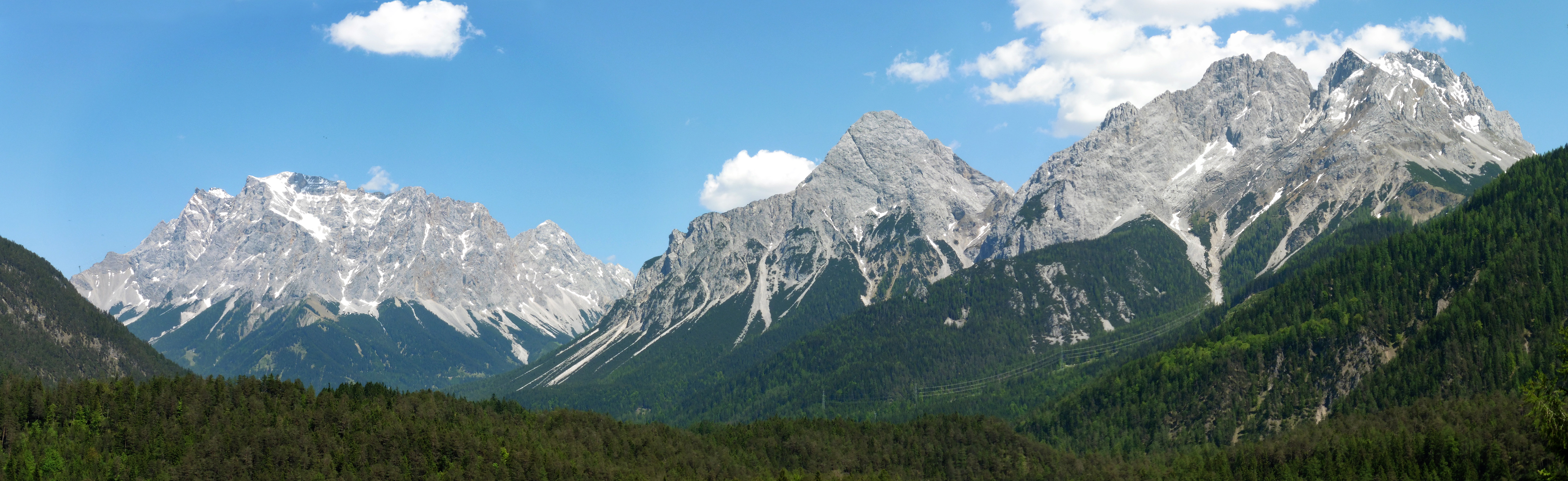 Western part of the Mieminger Mountains with Ehrwalder Sonnenspitze and Zugspitze seen from West (from Fernpass).